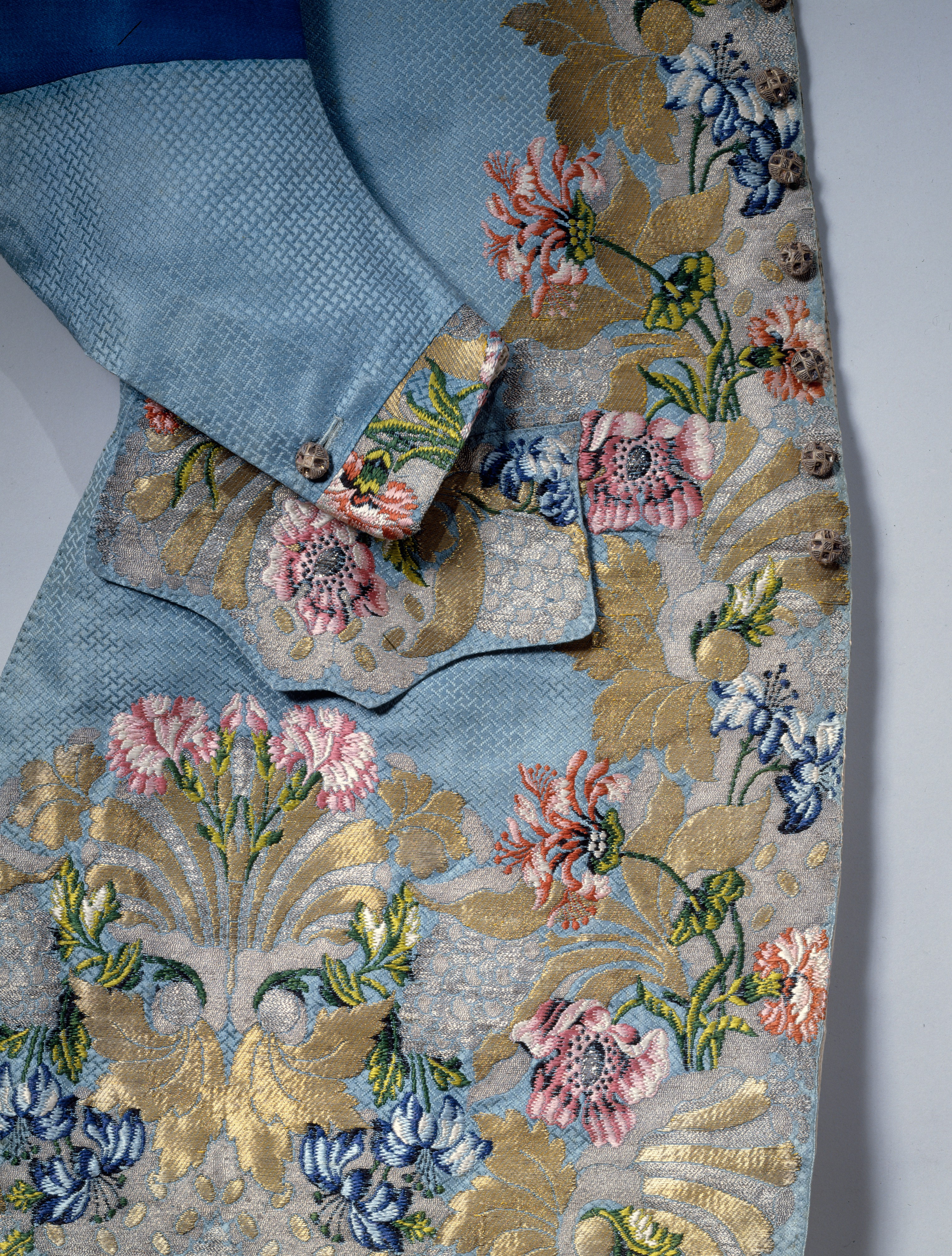 British; Waistcoat